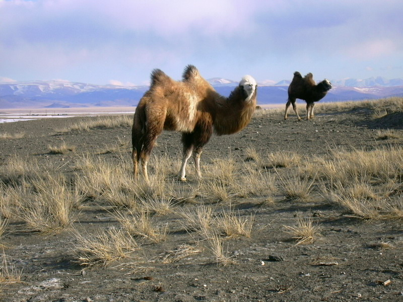 Camels in District Kosh-Agachsky, Altai Republic, Russia (original Russian description: В Кош-Агачском районе)